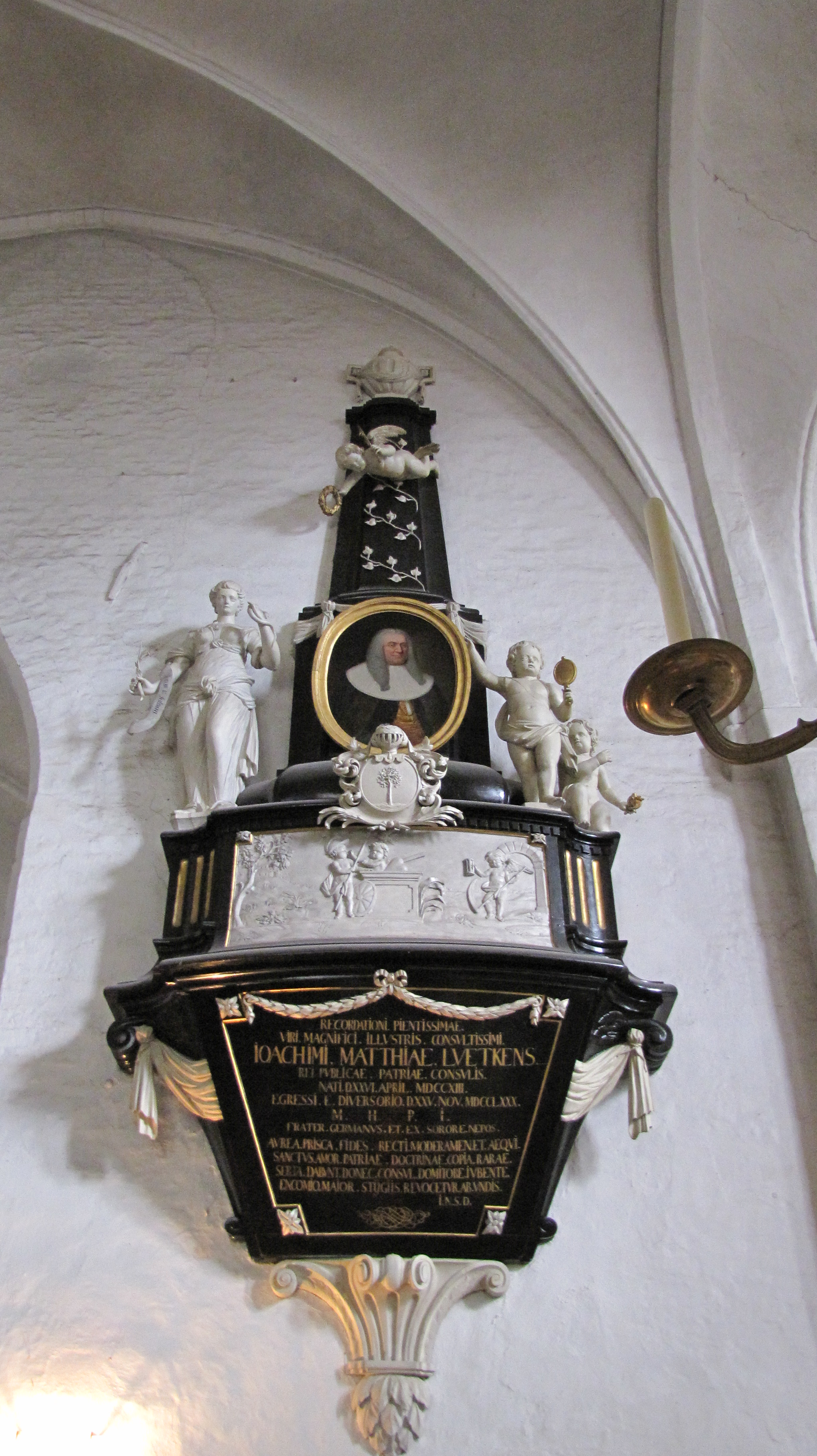 Epitaph for mayor Joachim Matthias Luetkens (1713-1780)